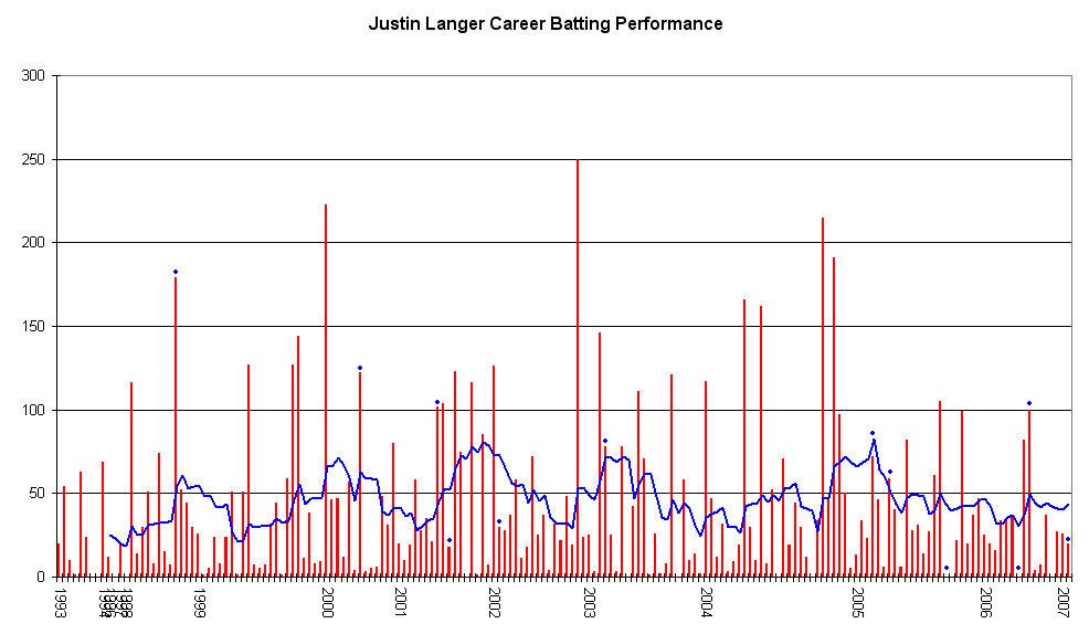 This graph details the Test Match performance of Justin Langer. The red bars indicate the player's test match innings, while the blue line shows the average of the ten most recent innings at that point. Note that this average cannot be calculated for the first nine innings. The blue dots indicate innings in which Langer finished not-out. This graph was generated with Microsoft Excel 2002, using data from Cricinfo and .au. The information in this chart is current as of 10 January 2007.